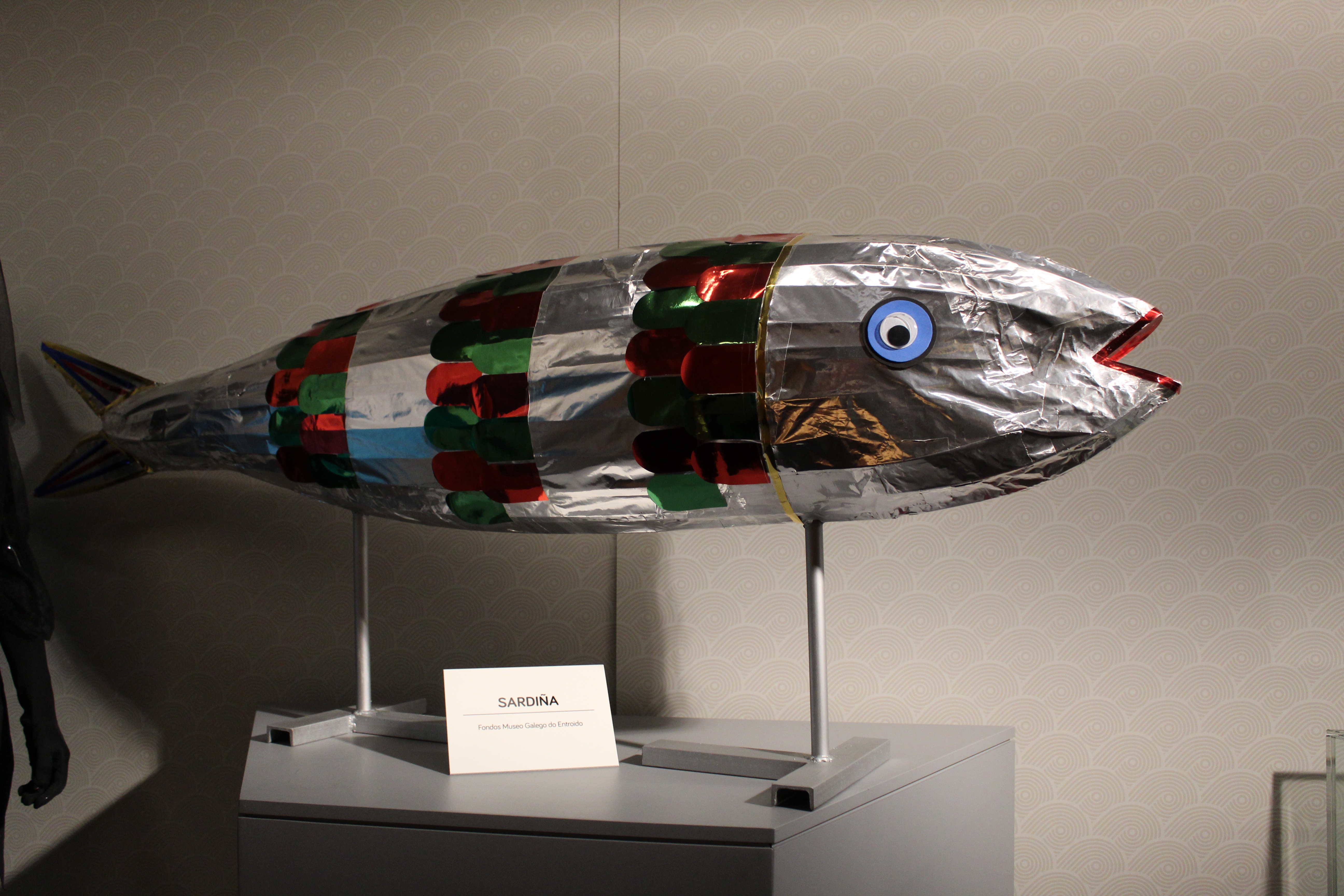 Sardiña que se queima no enterro da sardiña